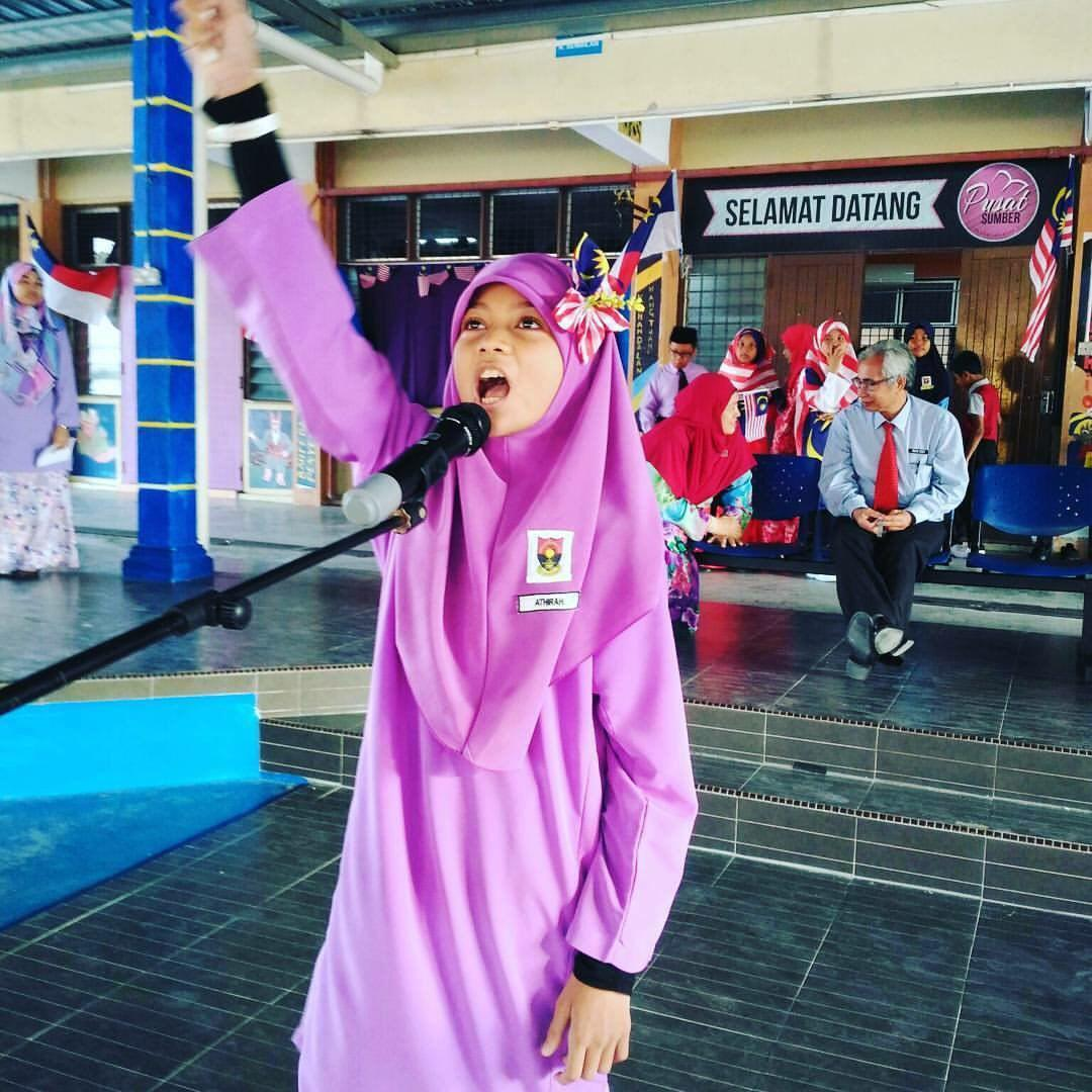 Murid Tahun 5 Dedikasi